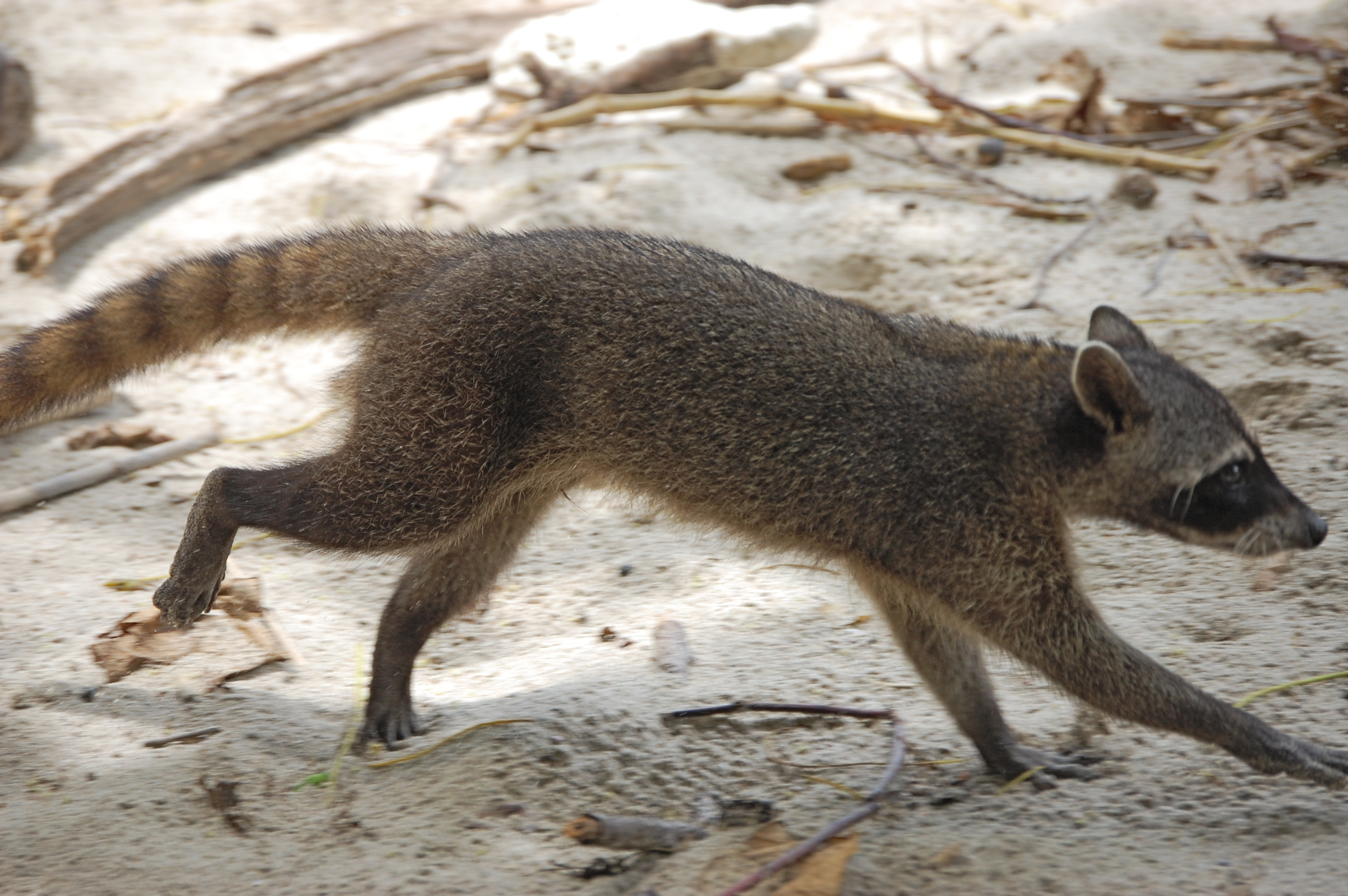 Crab-eating raccoon (Procyon cancrivorus) in Manuel Antonio National Park, Costa Rica. This is one of a pair that came down to the beach together.